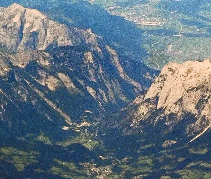 Pass Lueg between Tennengebirge and Hagengebirge (near Tenneck)